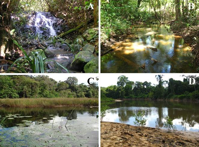 Examples of the habitats sampled in the RAP surveys conducted in the southern Guiana Shield tributaries of the Amazonas River in the five state protected areas of the Northern Pará Drainage System, in northern Brazil. (A) Rapids over rocky outcrops in a small stream in ESEC G-P North; (B) Forested stream in the REBIO Maicuru; (C) Lake in ESEC G-P South; (D) River margin in the middle stretch of the Ipitinga River in the REBIO Maicuru.